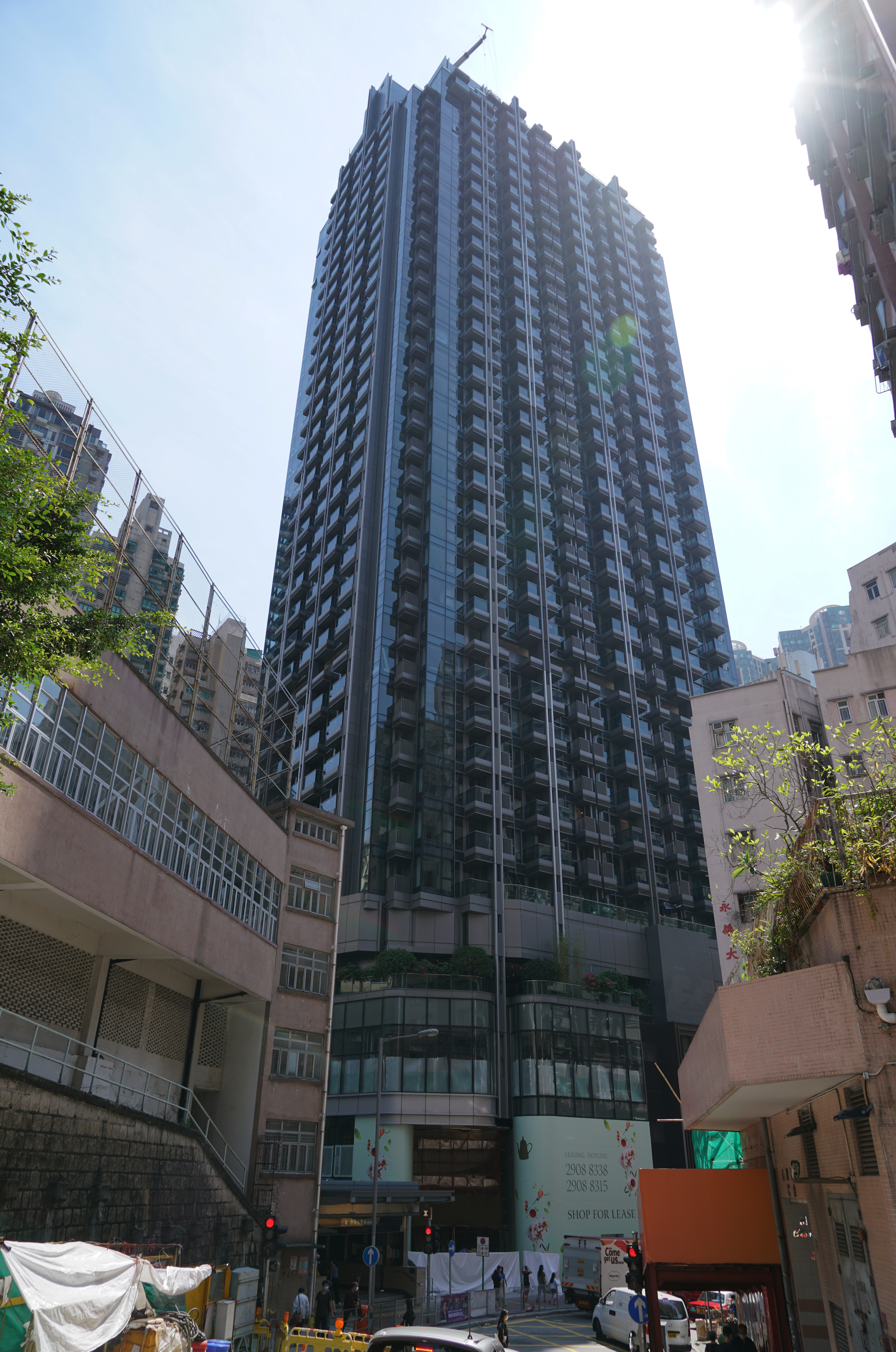 Novum West, Hong Kong.